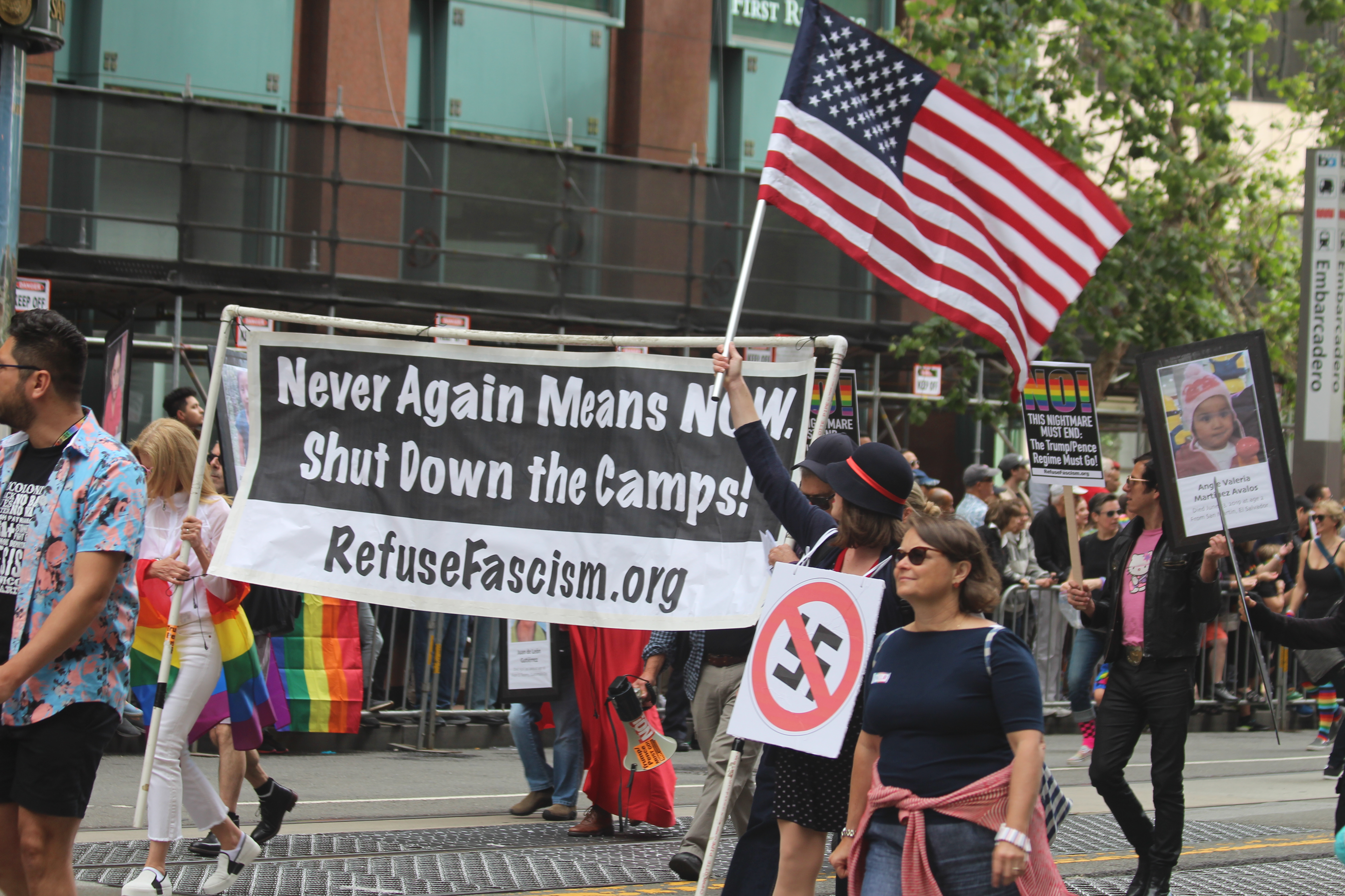 Never again means now